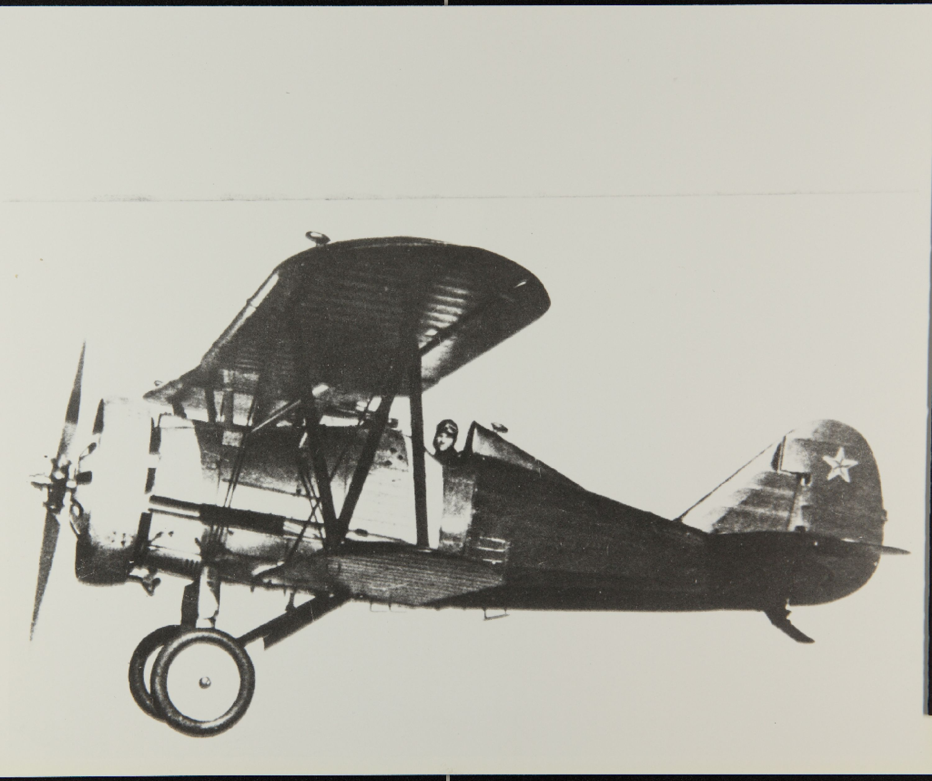 Catalog #: 01_00086841 Manufacturer: Polikarpov Designation: I-5 (VT-12) Notes: Russia Repository: San Diego Air and Space Museum Archive